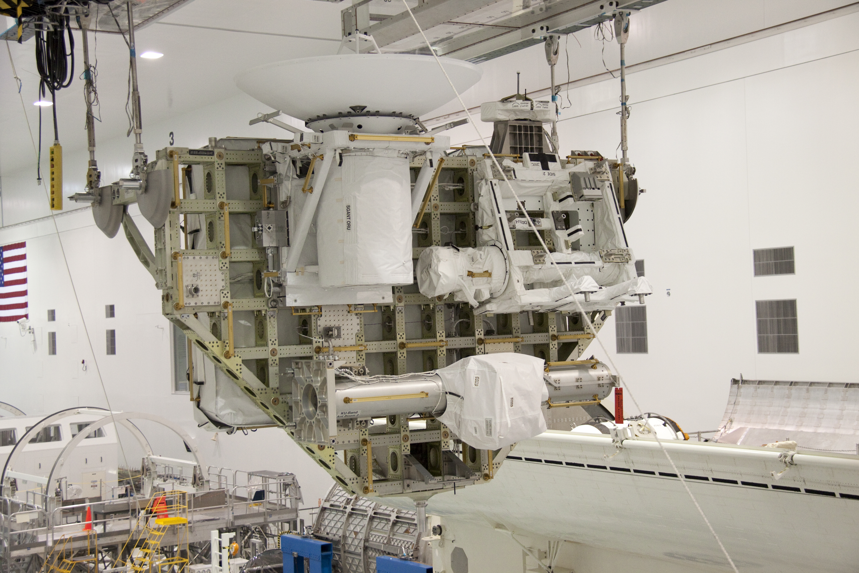 In the Space Station Processing Facility at NASA's Kennedy Space Center in Florida, the Integrated Cargo Carrier, or ICC, moves toward the payload canister in which it will be transported to Launch Pad 39A. The six-member crew of space shuttle Atlantis' STS-132 mission will deliver the ICC and the Russian-built Mini-Research Module-1, or MRM-1, to the International Space Station. The ICC is an unpressurized flat bed pallet and keel yoke assembly used to support the transfer of exterior cargo from the shuttle to the space station. The MRM-1, known as Rassvet, is the second in a series of new pressurized components for Russia and will be permanently attached to the Earth-facing port of the Zarya control module. Rassvet, which translates to "dawn," will be used for cargo storage and will provide an additional docking port to the station. STS-132 is the 34th mission to the station and the 132nd shuttle mission overall. Launch is targeted for May 14.